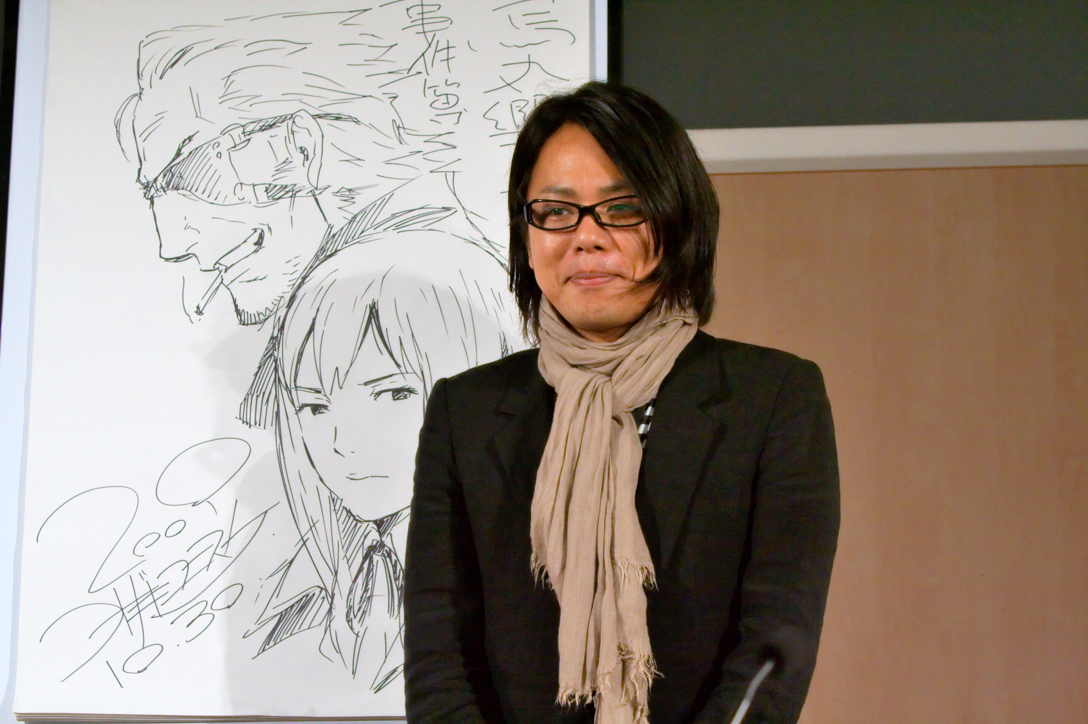 Master class with Yûsuke Kozaki at Chibi Japan Expo 2009 (Paris, France)